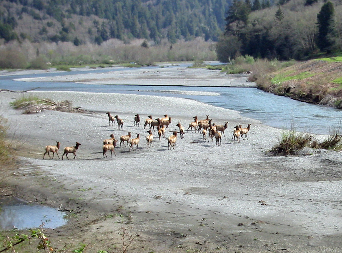 Roosevelt Elk (Cervus elaphus subsp. roosevelti) on the north shore of Redwood Creek.